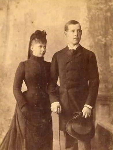 Engagement photograph (1889)